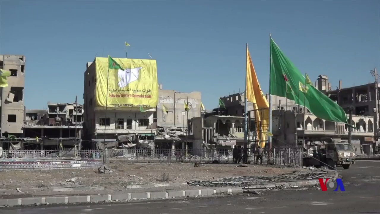 Flags of the Syrian Democratic Forces, People's Protection Units, and Women's Protection Units at the centre of the city of Raqqa after its complete capture by the SDF.